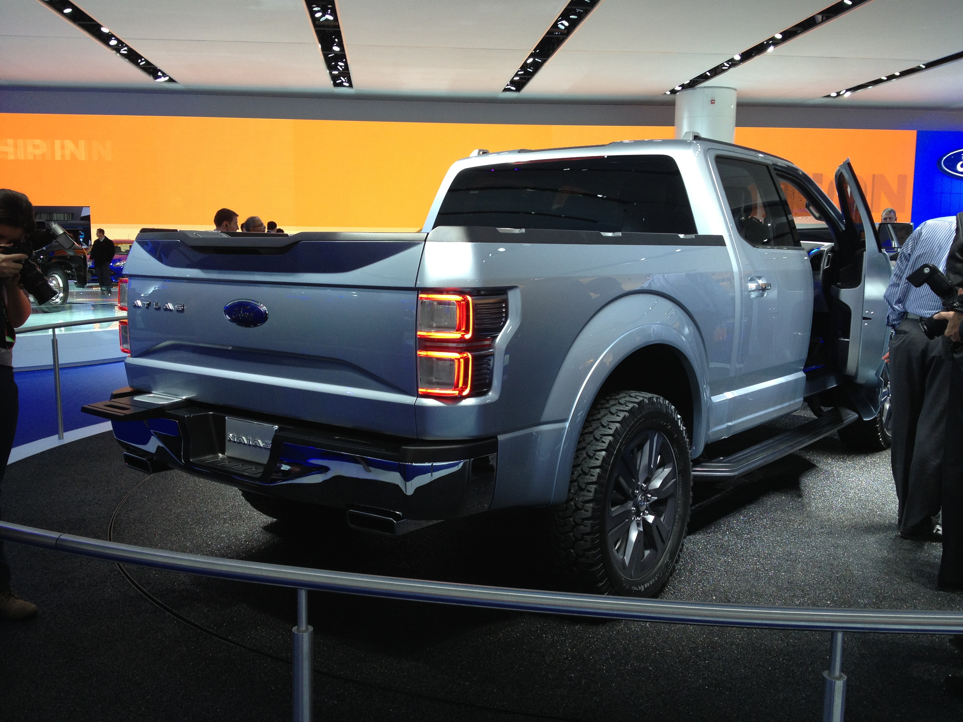 2013 North American International Auto Show Detroit, Michigan